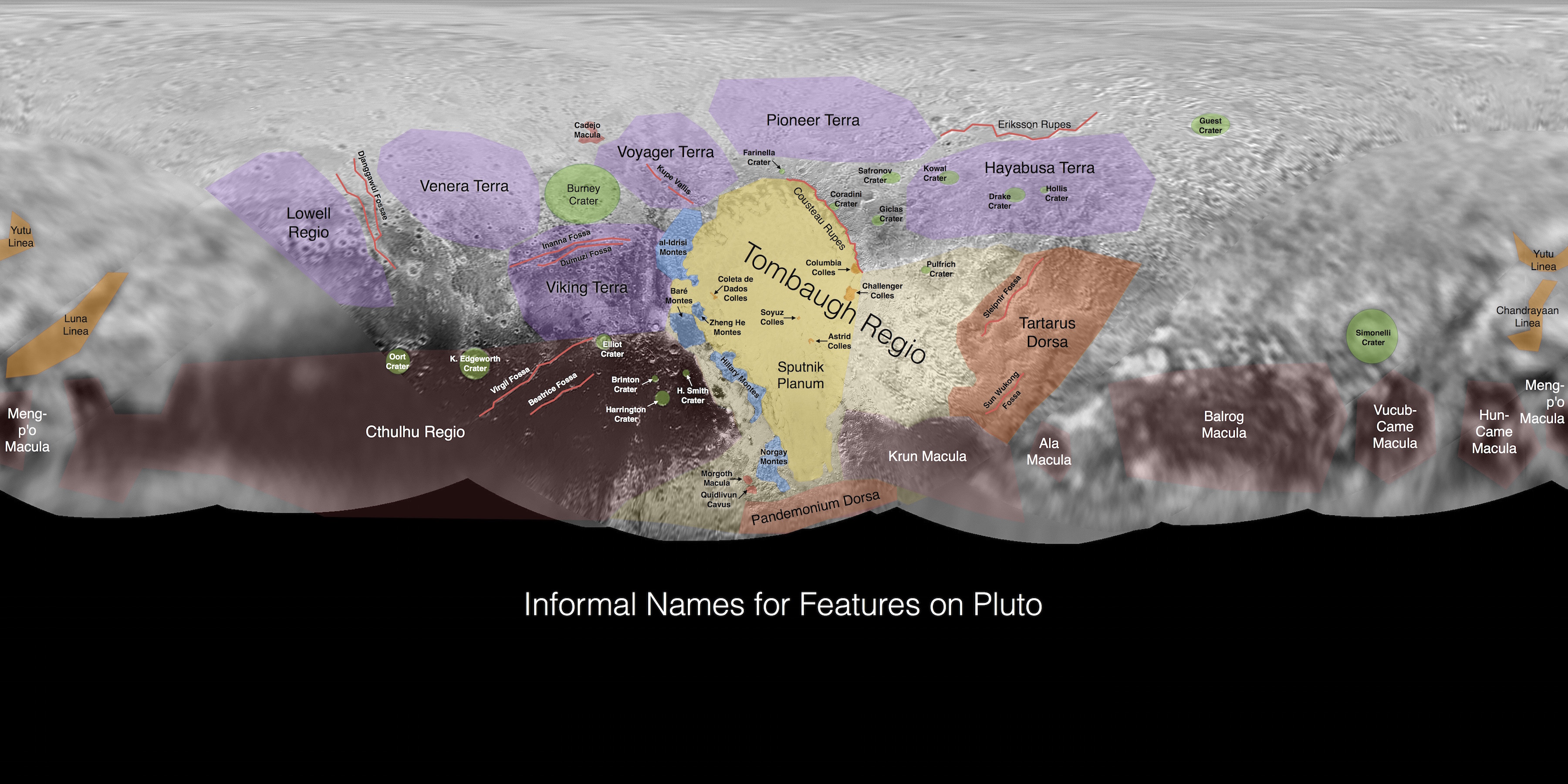 Original text: This image contains the initial, informal names being used by the New Horizons team for the features and regions on the surface of Pluto. Names were selected based on the input the team received from the Our Pluto naming campaign. Names have not yet been approved by the International Astronomical Union (IAU).